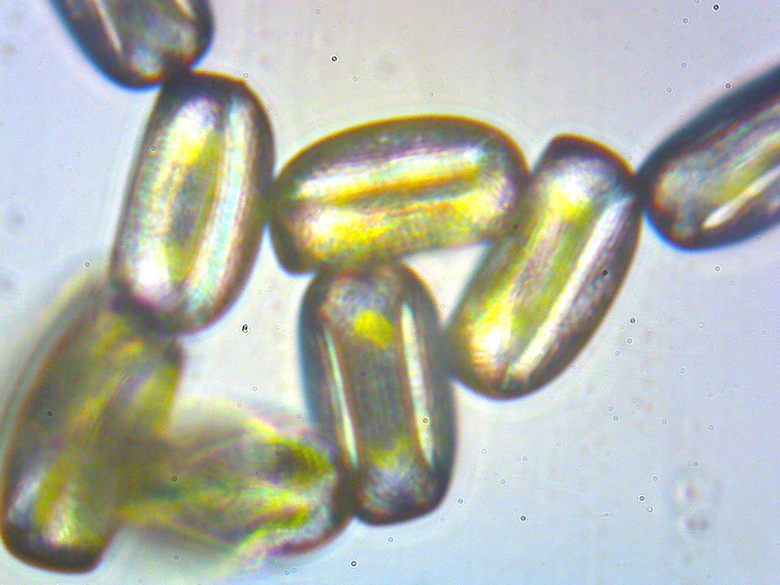 Pollen of Trifolium repens: microscopic image